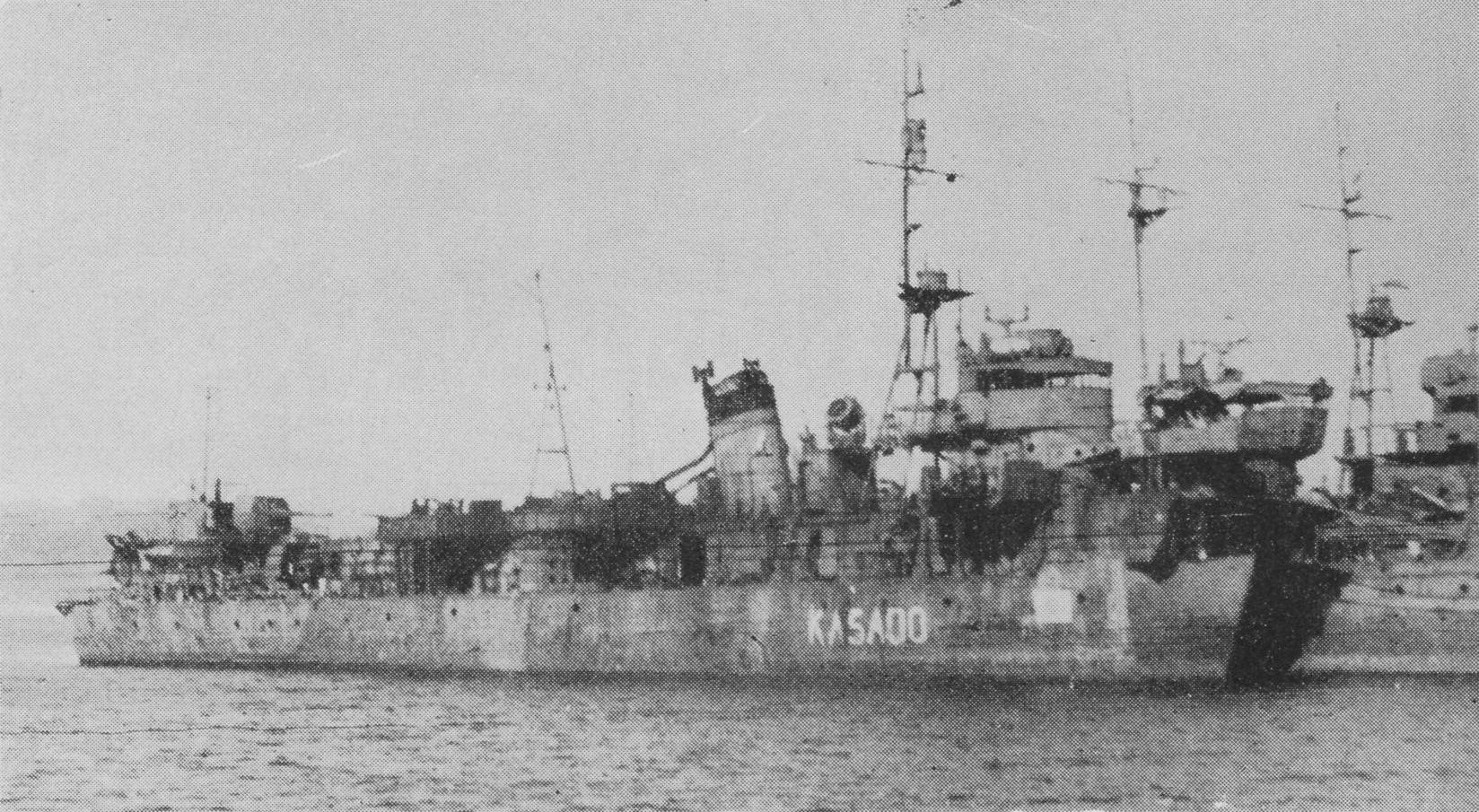 Etorofu class escort ship "Kasado", after the end of the war. Lost the bow part by the attack of United States Navy "USS Crevalle" on June 22, 1945.